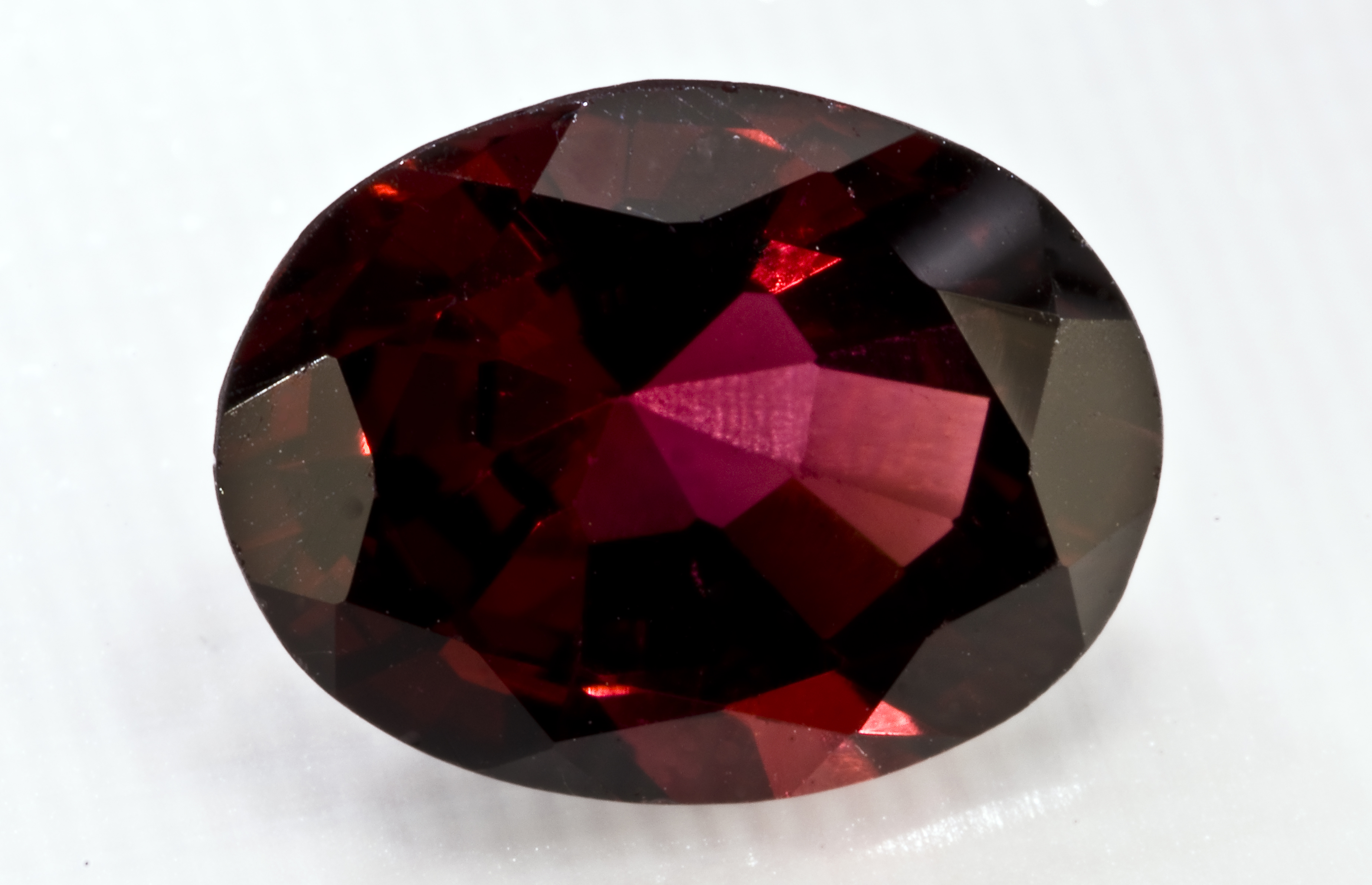 Almandine - Jaipur Rajasthan India 3ct64